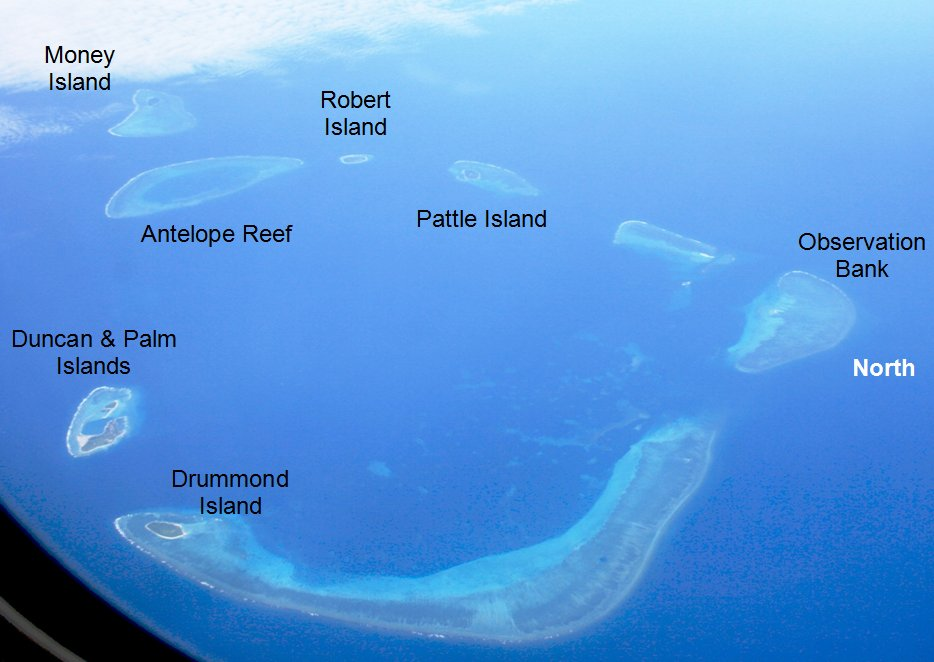 Crescent Group of the Paracel Islands - annotated